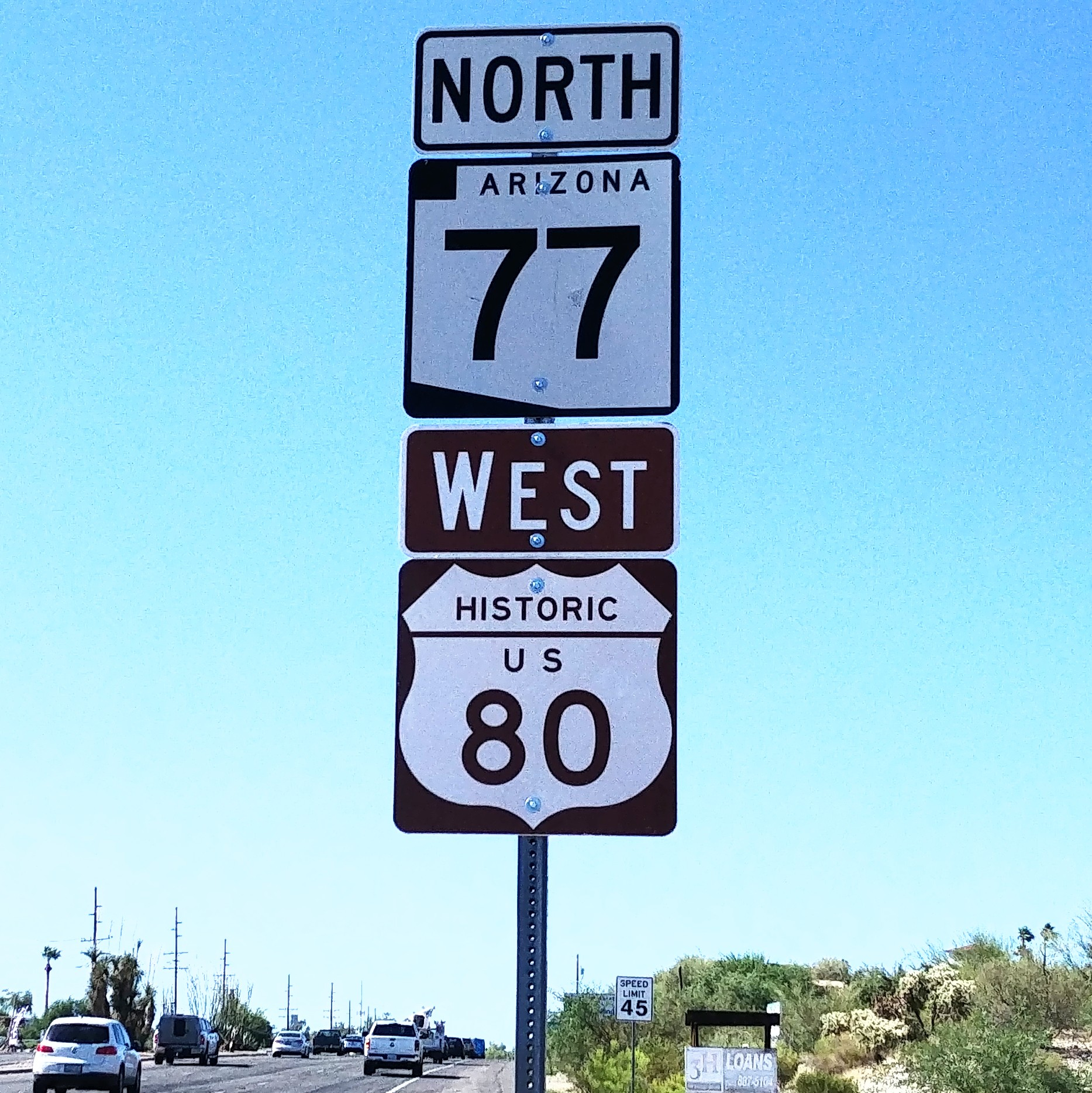 Starting around May 24, 2019, the Arizona Department of Transportation began signing Historic US 80 along the surviving segments of the highway, starting with state owned and maintained roads. SR 77 and Historic US 80 run concurrent from SR 79 in Oracle Junction to Miracle Mile in Tucson. This is the first recorded Historic US 80 sign inside Tucson City Limits.